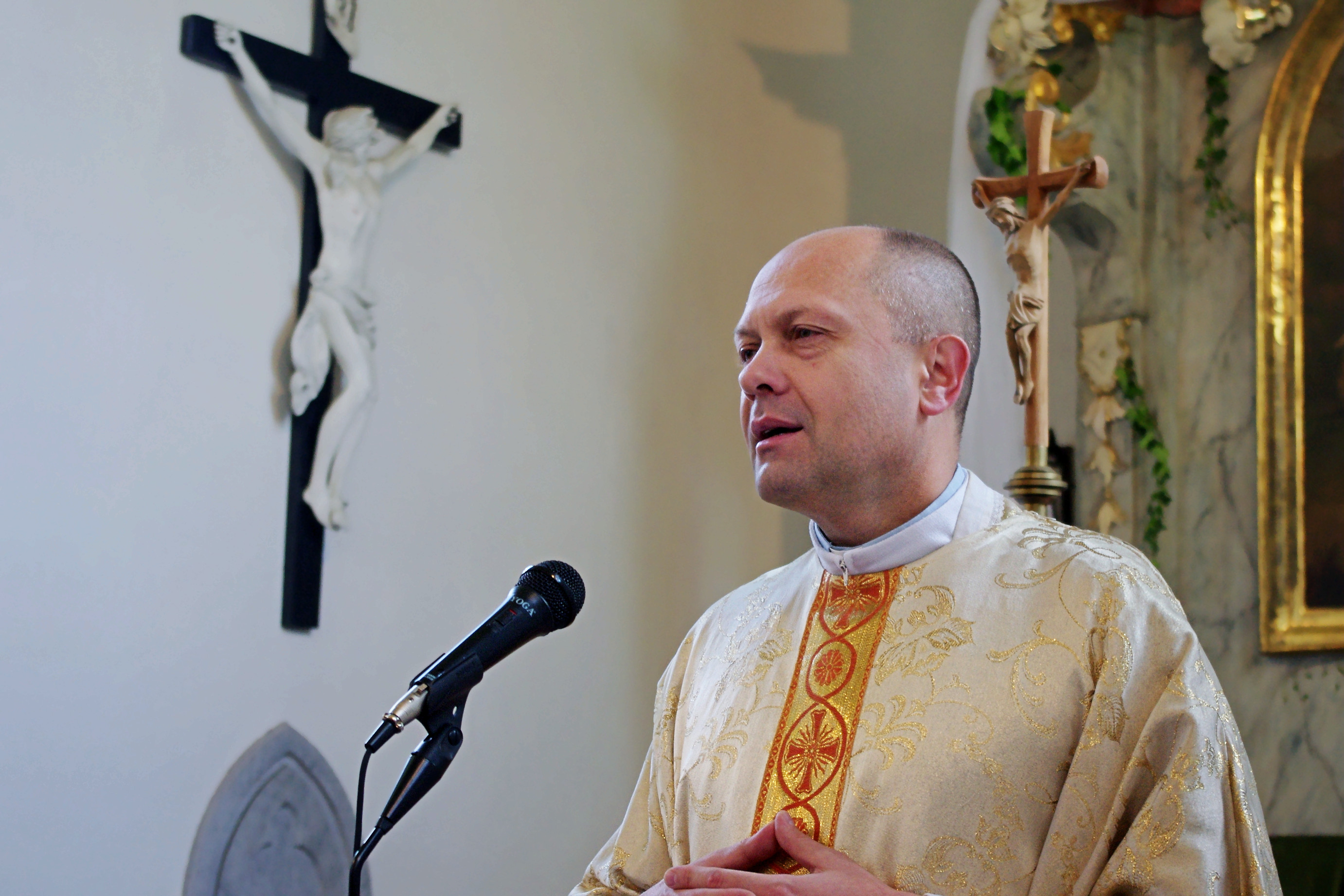 Zdenek Wasserbaur giving a homily, 150th anniversary of the church in Roztoky